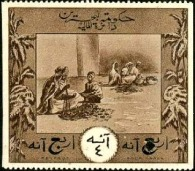 A 1924 4 anna revenue stamp of Bahrain printed by Waterlow & Sons.